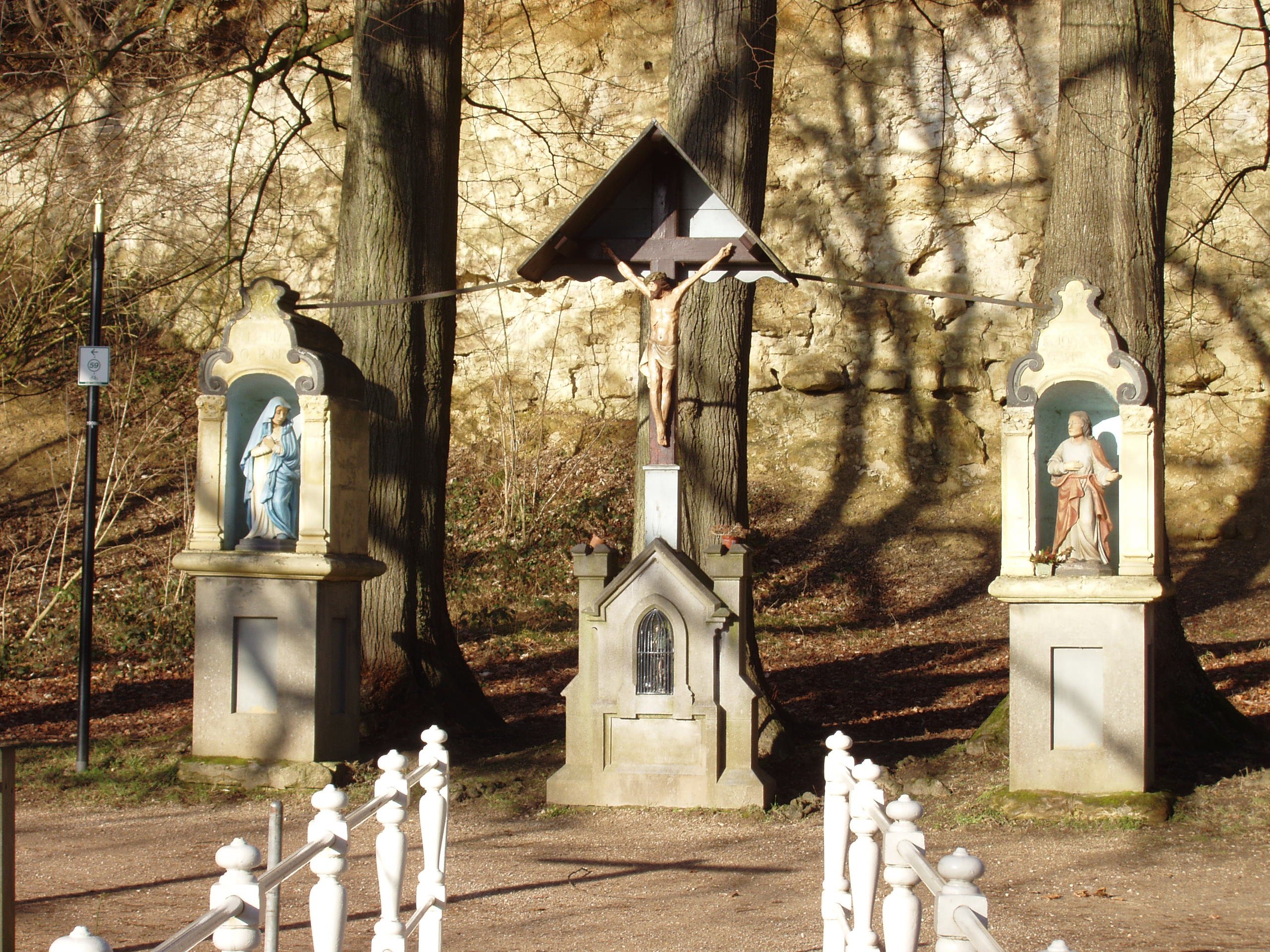 De Drie Beeldjes, Oud-Valkenburg, Limburg, Netherlands